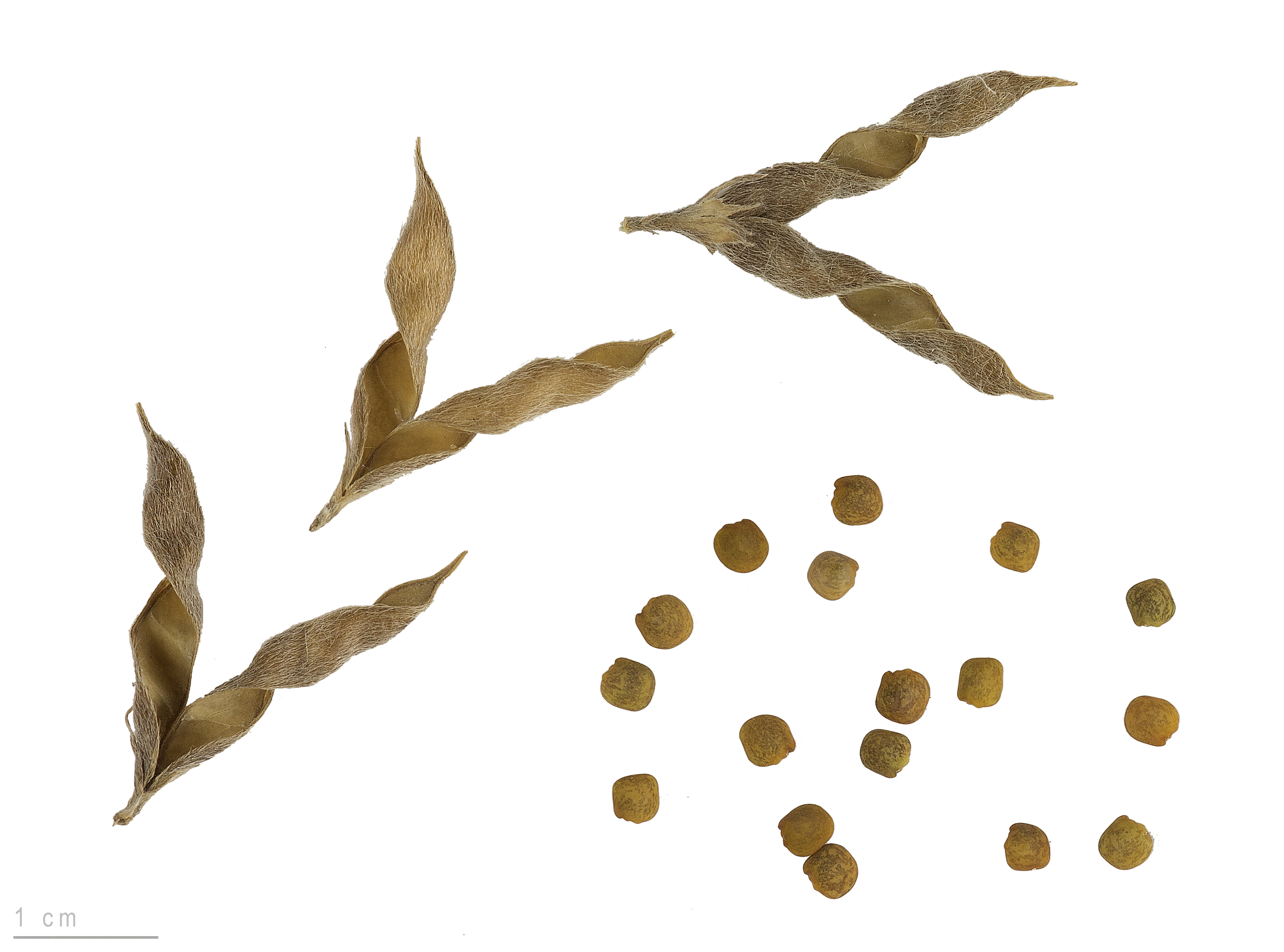 Argyrolobium zanonii , fruits and seeds